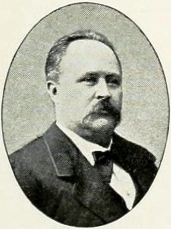 Frans Johan Erland Berglöf (1841-1903), mayor of Söderhamn, Sweden